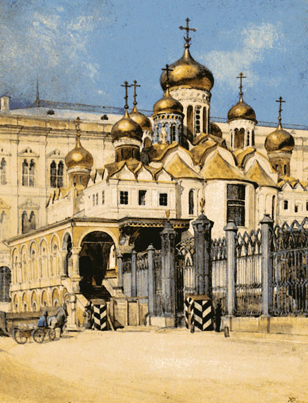 1848 watercolor of Annunciation Cathedral in Moscow kremlin, prior to reconstruction of 1860s.